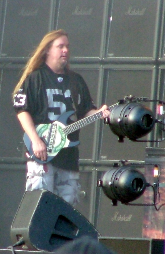 Jeff Hanneman of Slayer at Tuska-Festival